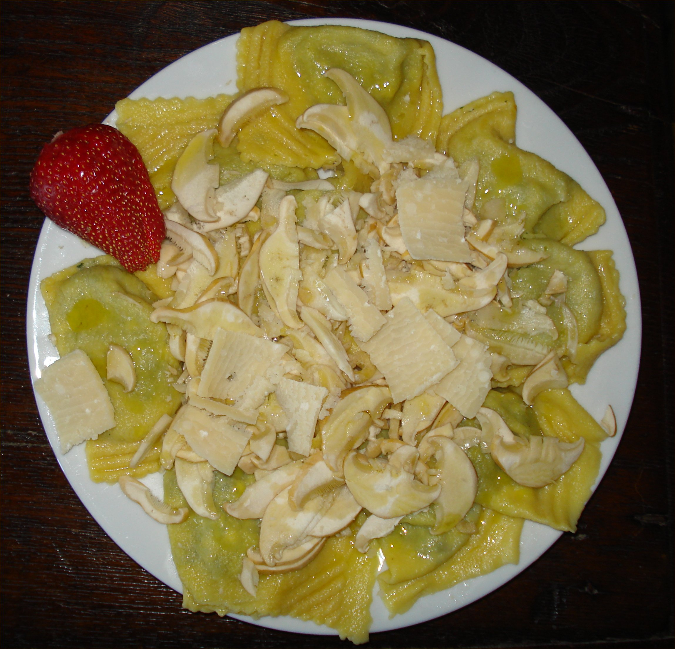 Sasso Pisano